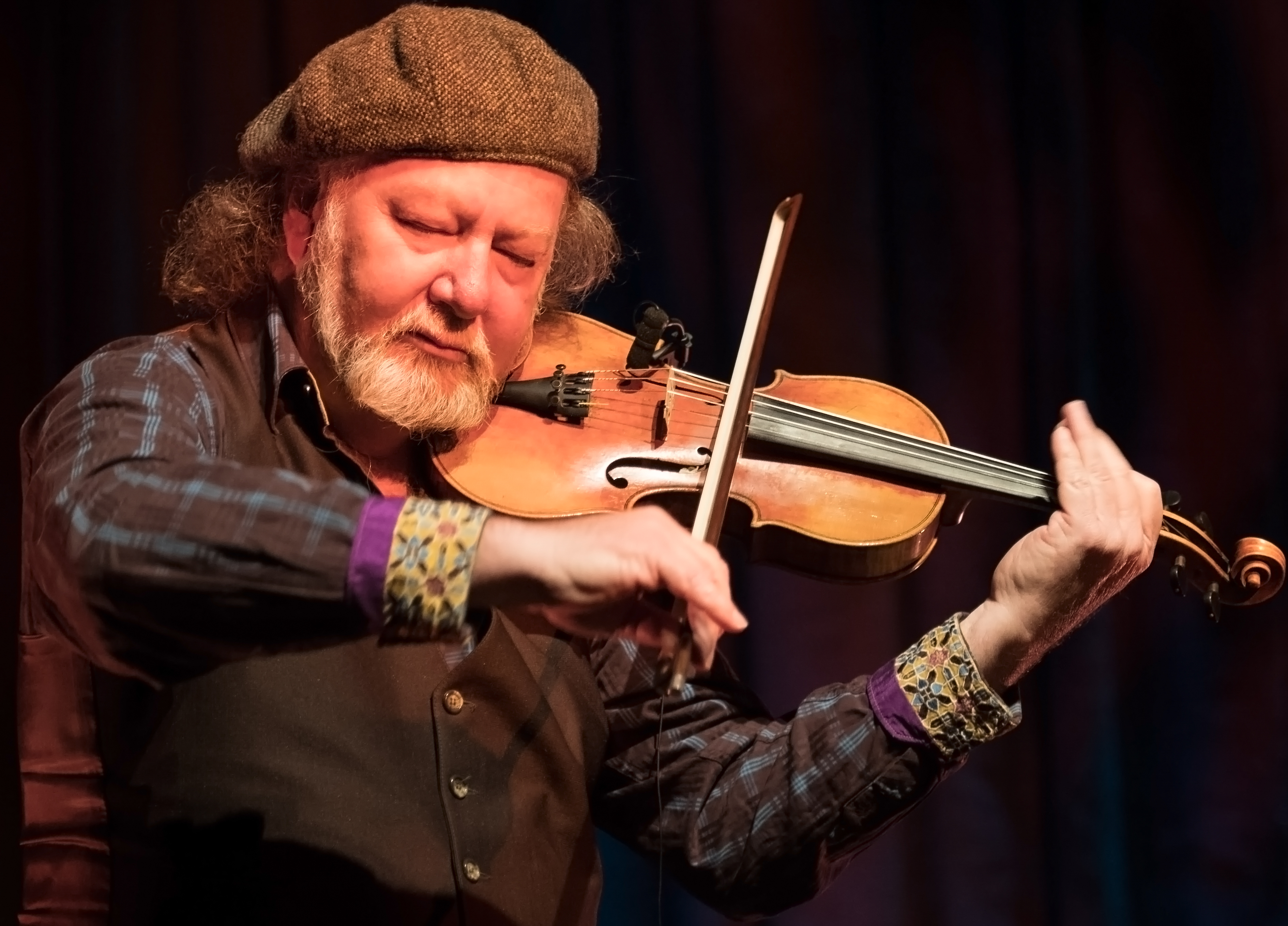 Alasdair Fraser (32922788006) at the Celtic String Playhouse 2017-02-10 by Bill Bailey